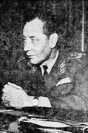 Dragomir Benčič – Brkin (1911 - 1967), Slovene general